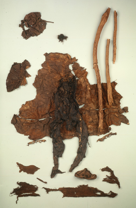 Remains of the bog body Emmer-Erfscheidenveen Man. The bog body was discovered turfing a bog near the Gelpenberg in Zweeloo, Province Drenthe, Netherlands on 22 October 1938.